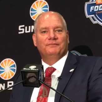 Steve Campbell, head coach of the South Alabama Jaguars football team, at the 2018 Sun Belt Conference Media Day in the Mercedes-Benz Superdome in New Orleans.